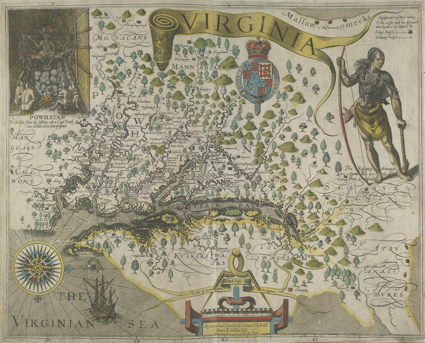 Map of colonial Virginia.